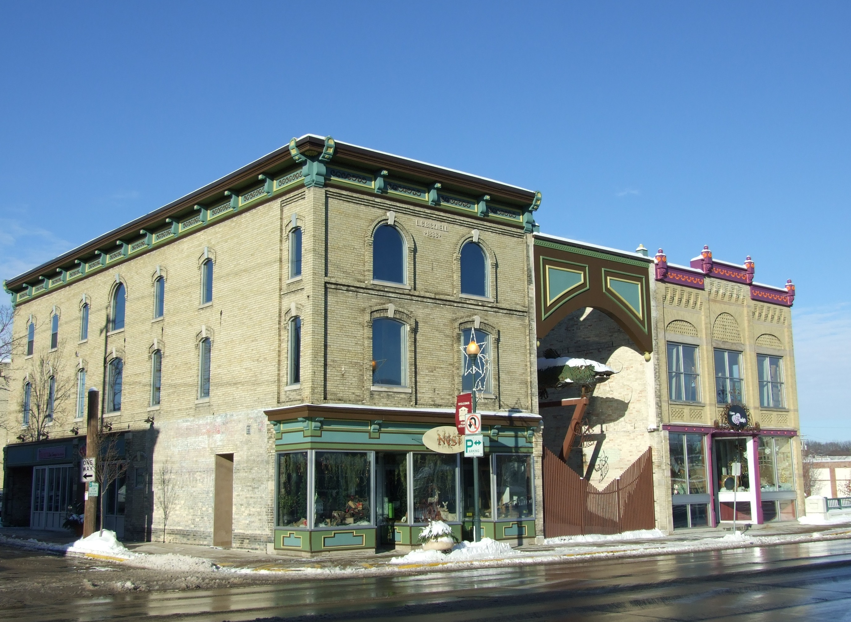 0-99 block of S Main St - even (west) side of street. Fort Atkinson, Wisconsin, Main Street Historic District